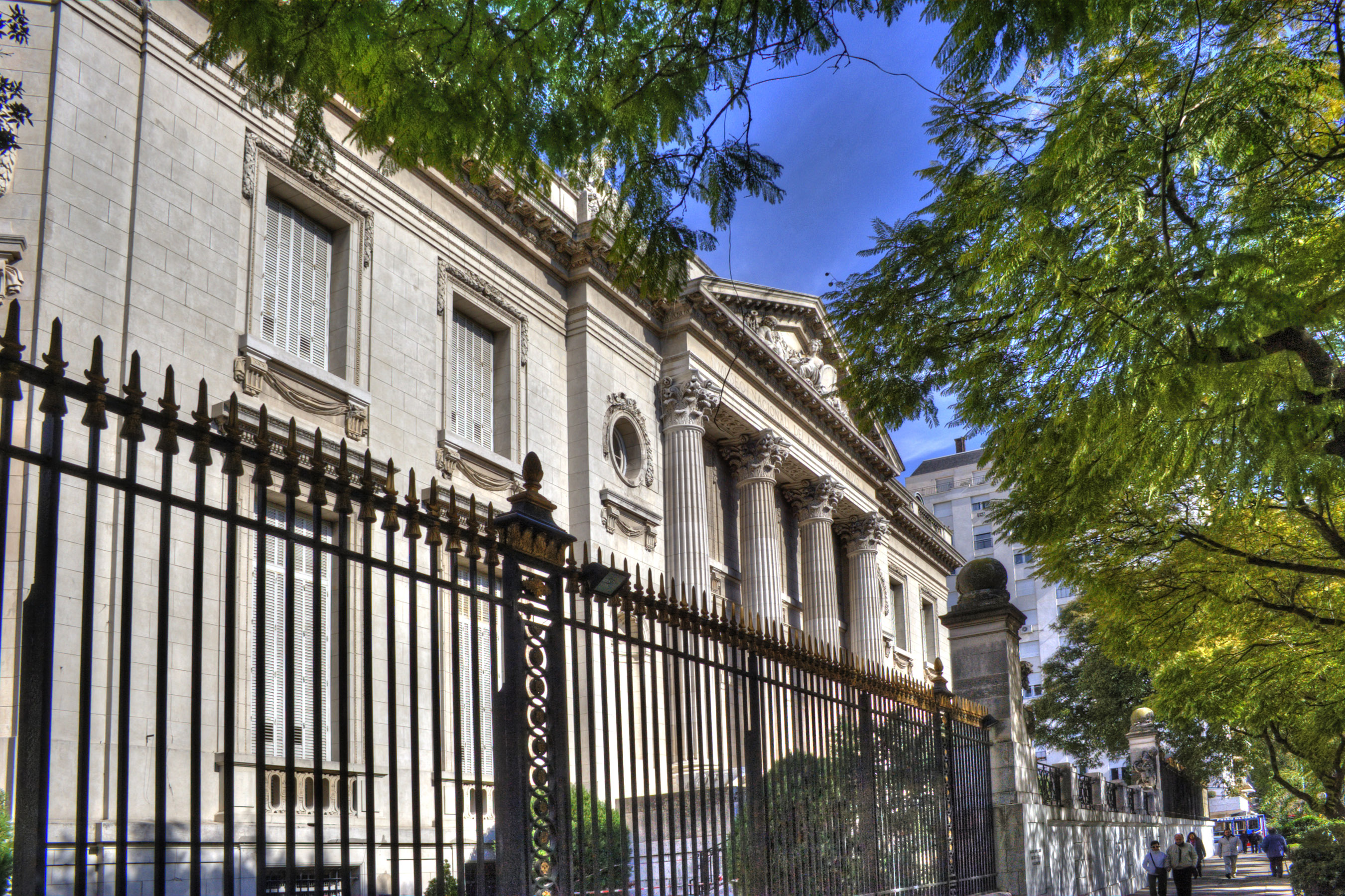 View of the side of the Errázuriz Palace (National Museum of Decorative Arts) in Buenos Aires, Argentina